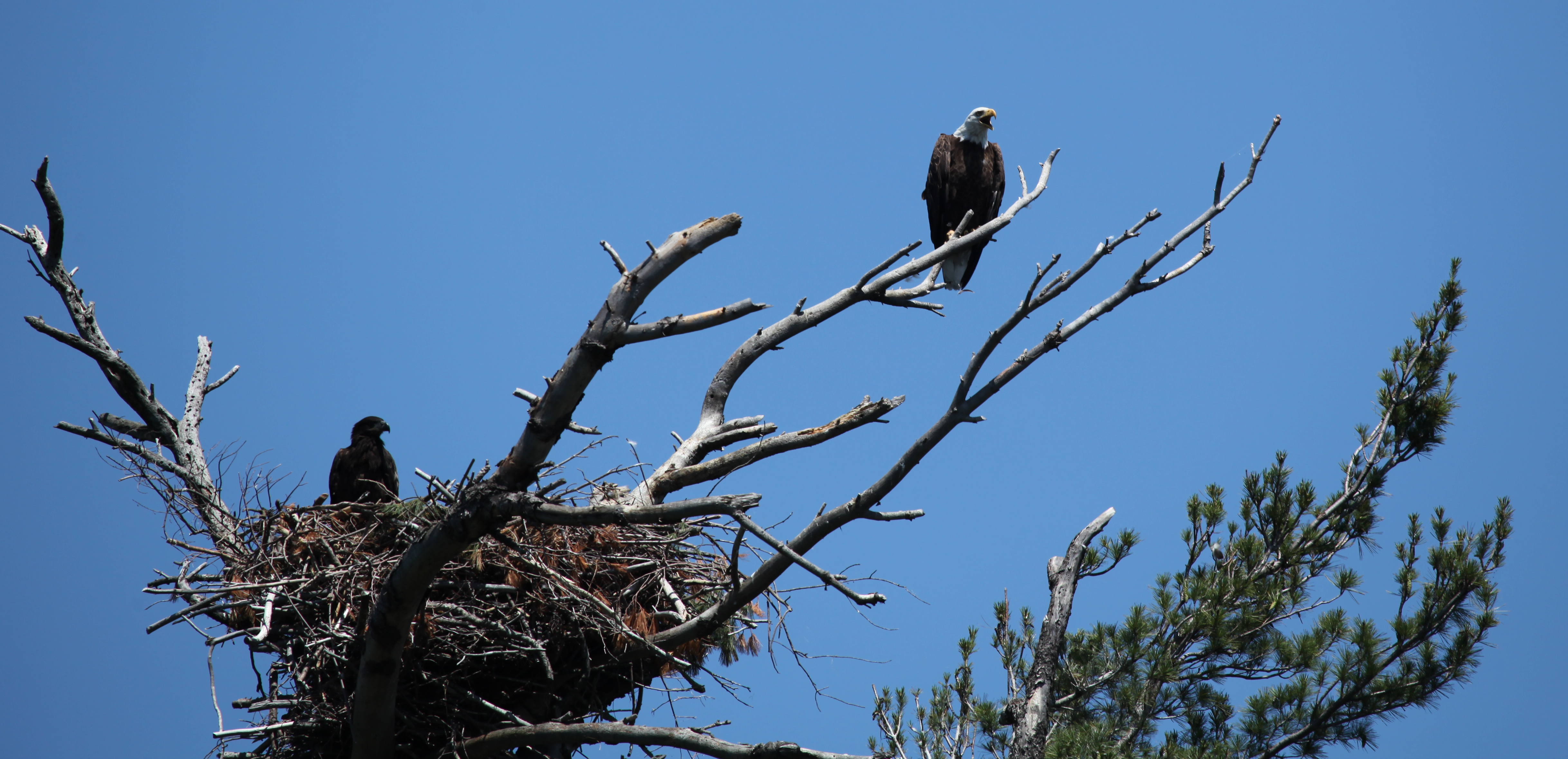 On an island in Lake Nipissing, Ontario.